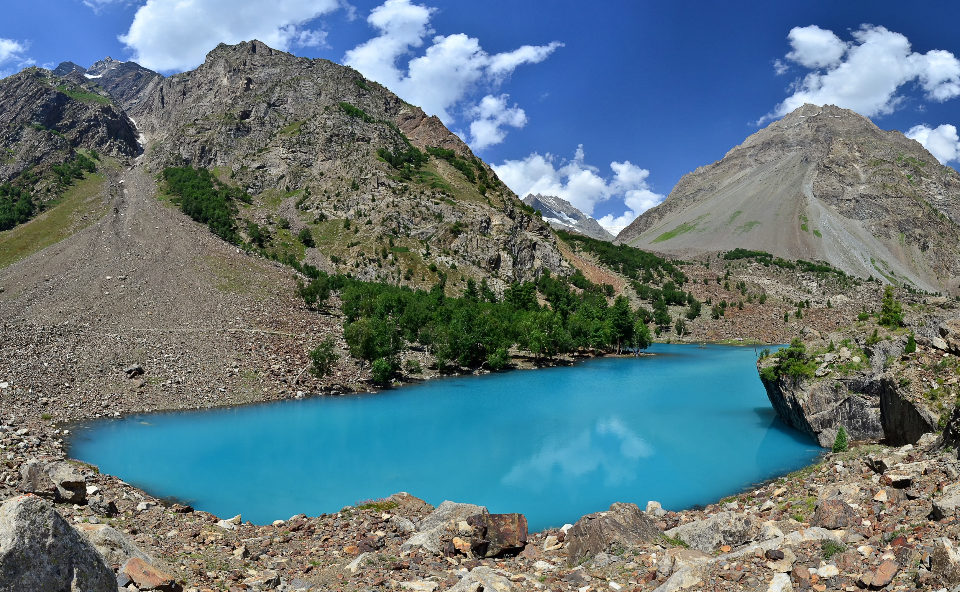 Naltar is a valley near Gilgit , Hunza and Nomal, Gilgit Baltistan in the Gilgit–Baltistan province of Pakistan. Naltar is 40 km (25 mi) from Gilgit and can be reached by jeeps. Naltar is a forested (pine) village known for its wildlife and magnificent mountain scenery. This lake is one of the most beautiful lakes that can be found in this valley.